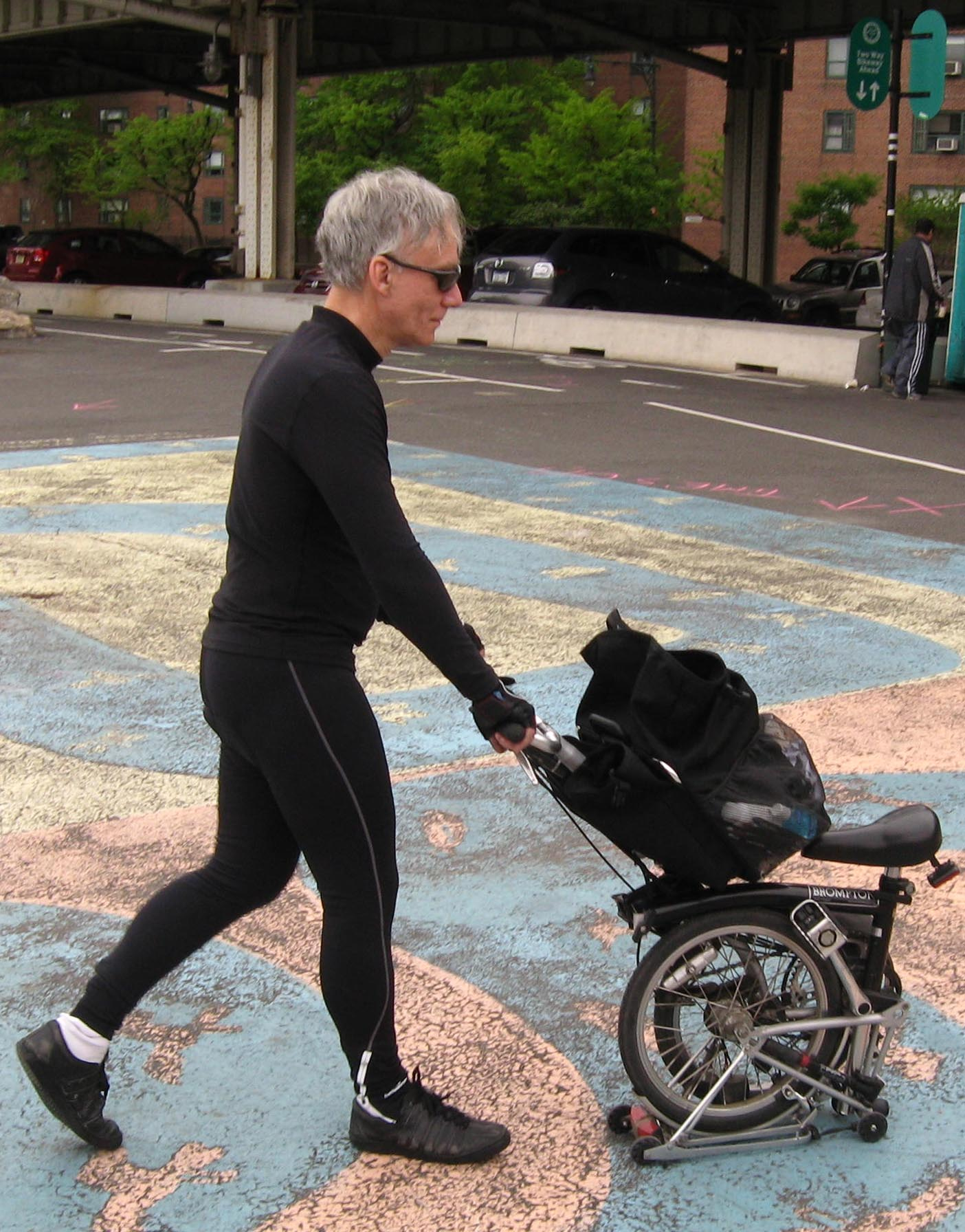 Brompton Bicycle works as a cart. Looking west under FDR Drive on a cloudy afternoon.